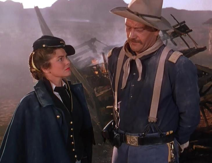 Joanne Dru & John Wayne in She Wore a Yellow Ribbon - trailer (cropped screenshot)